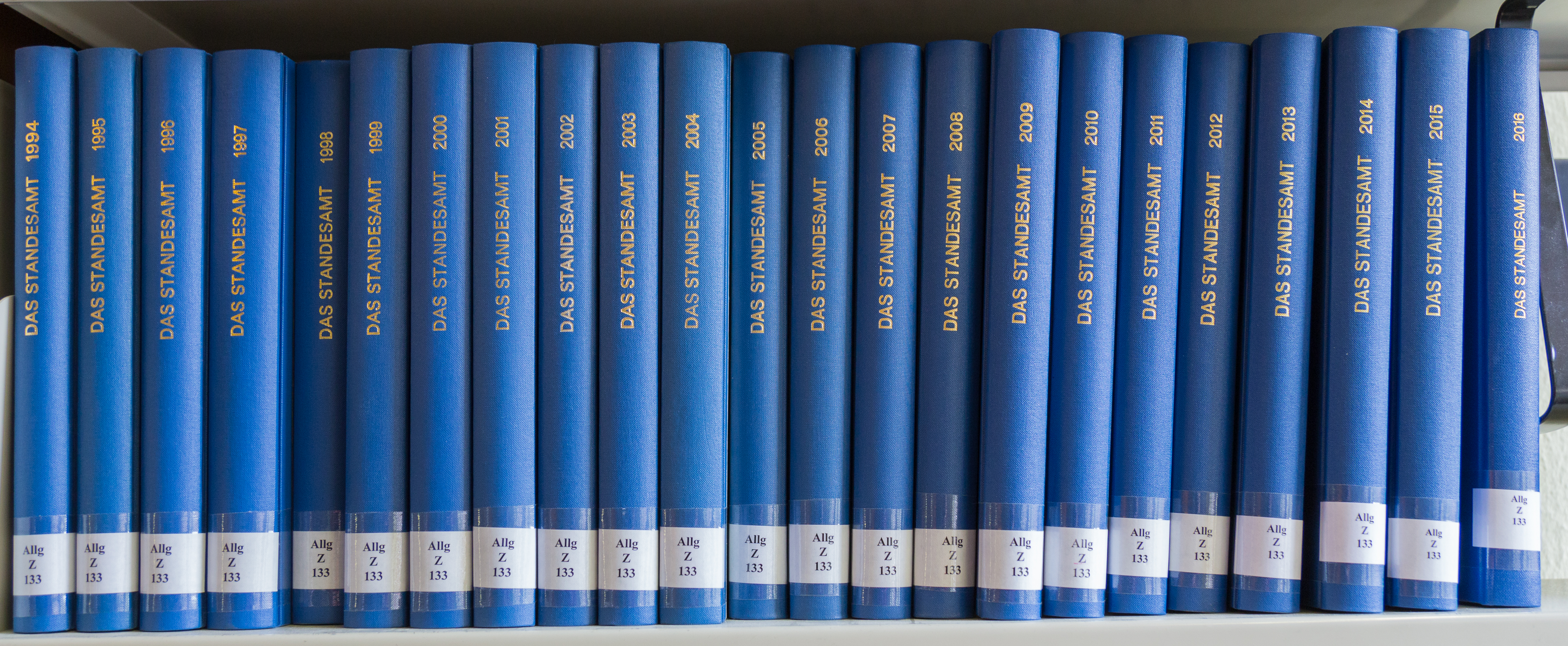 Bound volumes of the German law journal Das Standesamt in the Civil Law Library (Gemeinsame Bibliothek der Zivilrechtlichen Institute – Zivilrechtliche Bibliothek/ZRB) at the Juridicum, 14-16 University Street (Universitätsstraße 14-16) in the city centre of Münster, North Rhine-Westphalia, Germany. The ZRB is one of the several libraries of the University of Münster (Westfälische Wilhelms-Universität Münster). Picture taken with permission by the Juridicum/ZRB staff.